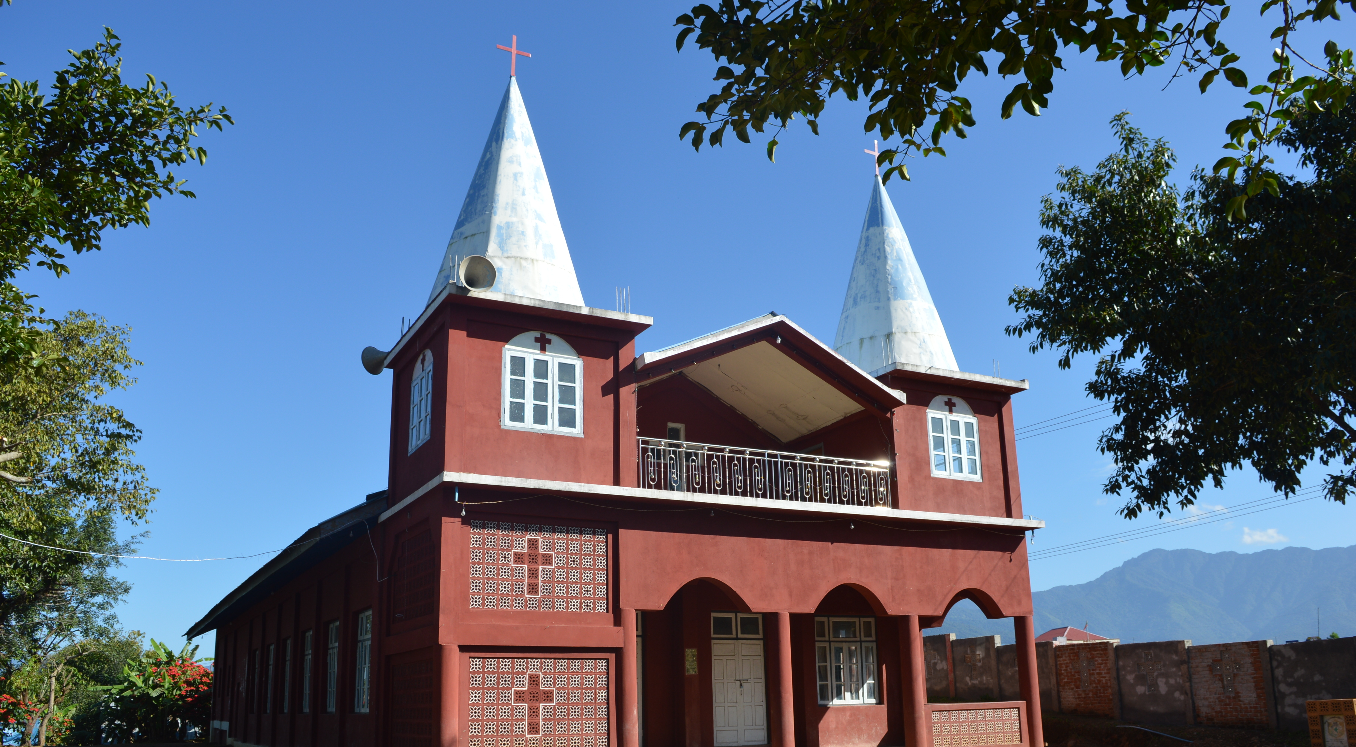 Church of first Matupi Pioneer Mission